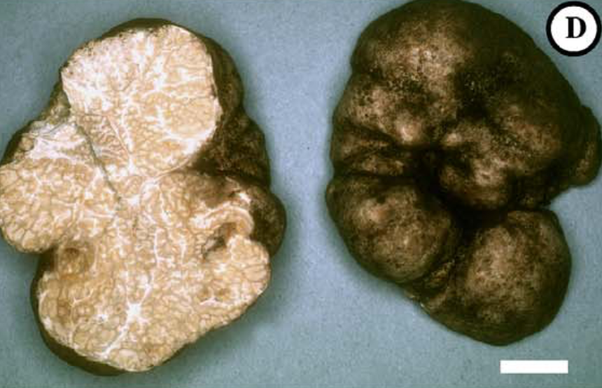 Choiromyces alveolatus (Harkn.) Trappe, a Pinaceae associate from western North America. scale bar: 1cm